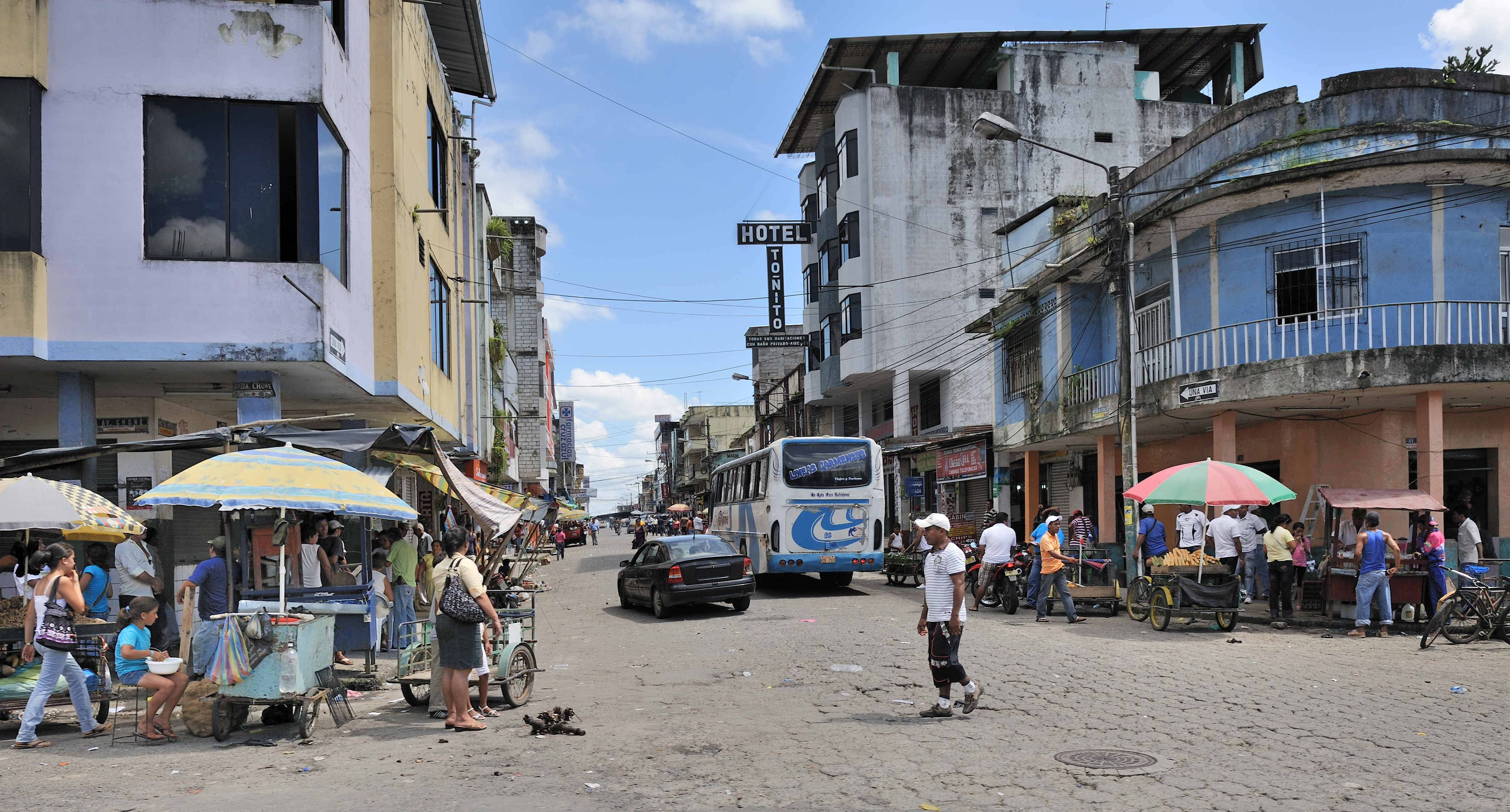 Ecuador, El Carmen: street scene. Altitude: 46 m asl.